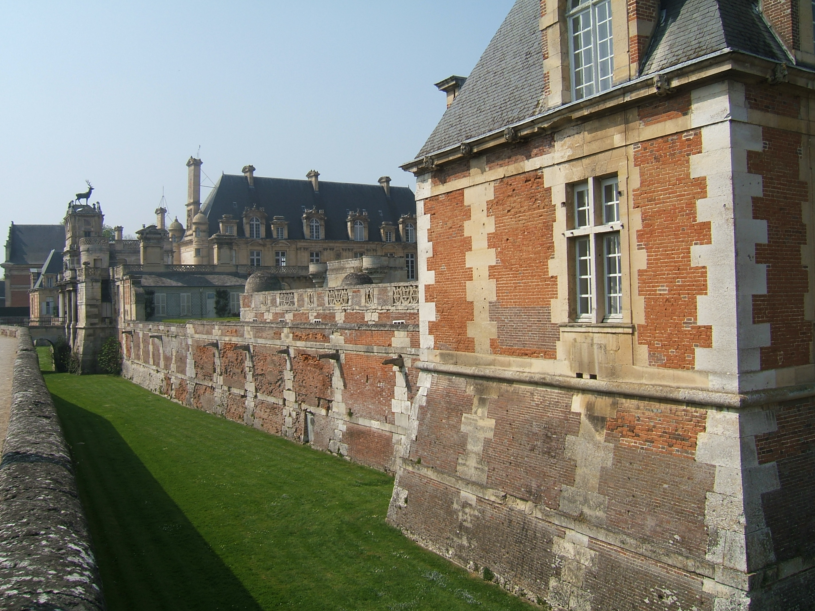 Northern front of the Château d'Anet